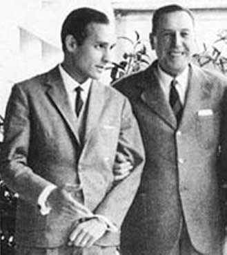 Argentine leader Juan Domingo Perón (right) and trade union leader Jorge Di Pascuale in Madrid, 1963. After that meeting, Perón, then in exile, nominated Di Pascuale as his liaison wiht the socialist governments.